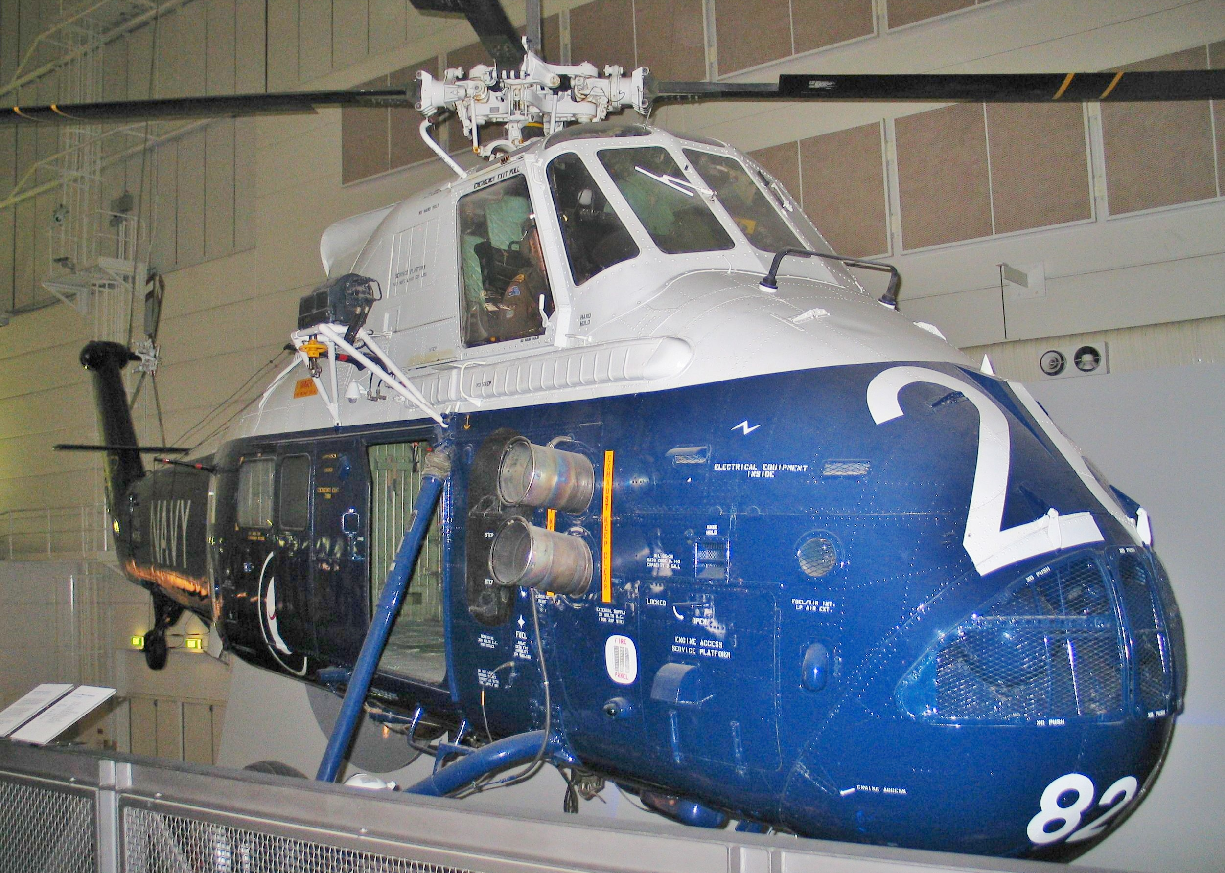 Westland Wessex helicopter at the Australian National Maritime Museum, Sydney, NSW, Australia.